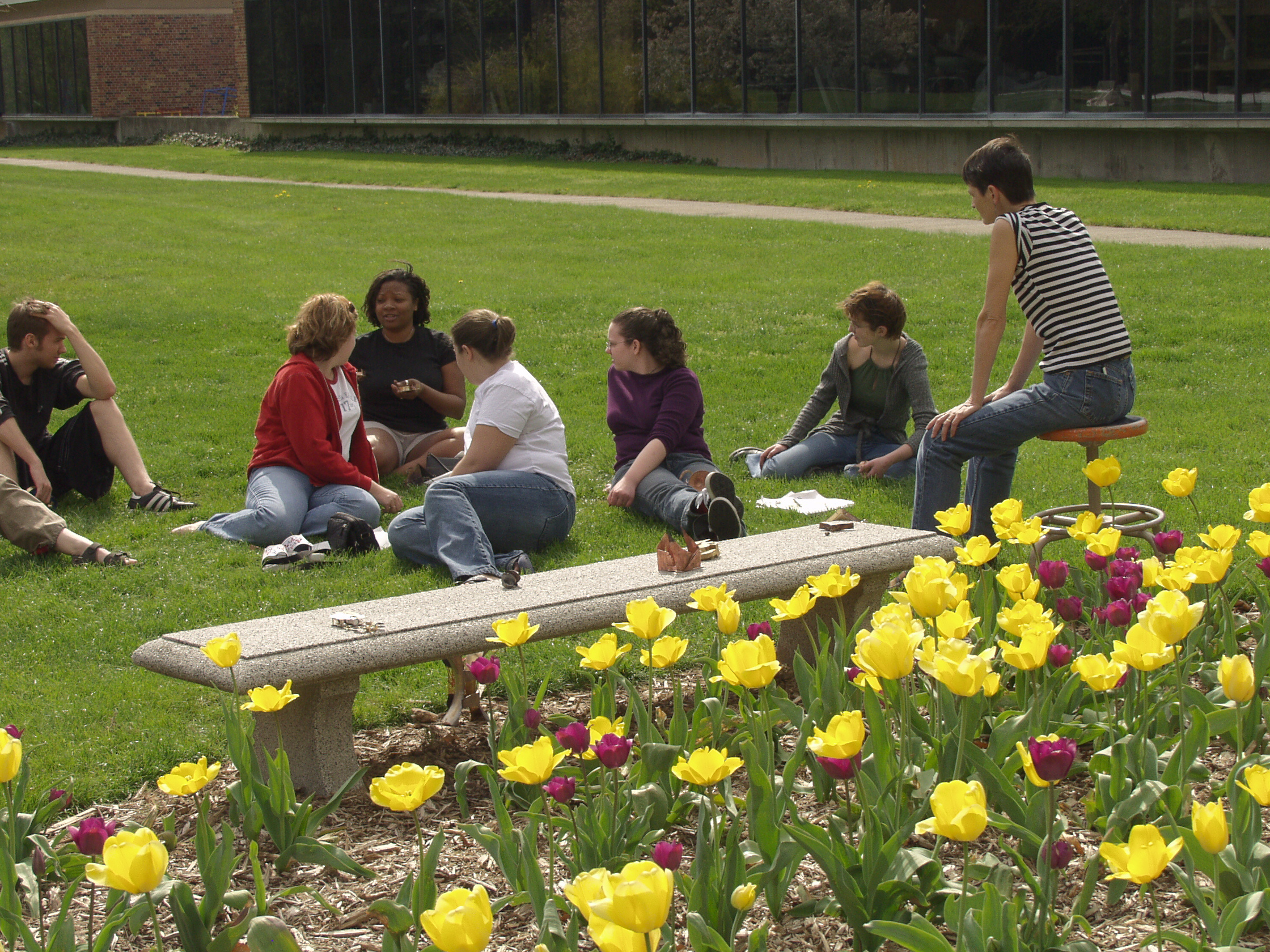 Students enjoy class on the lawn beside the Arts Center.